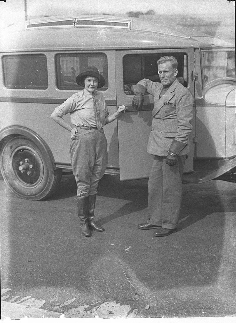 Format: Negative For a biography of Francis Birtles, who had been married to Nea for less than two months in this photograph, see: .au/biography/birtles-francis-edwin-5244 Find more detailed information about this photographic collection: .au/item/itemDetailPaged.aspx?itemID=85657 From the collection of the State Library of New South Wales